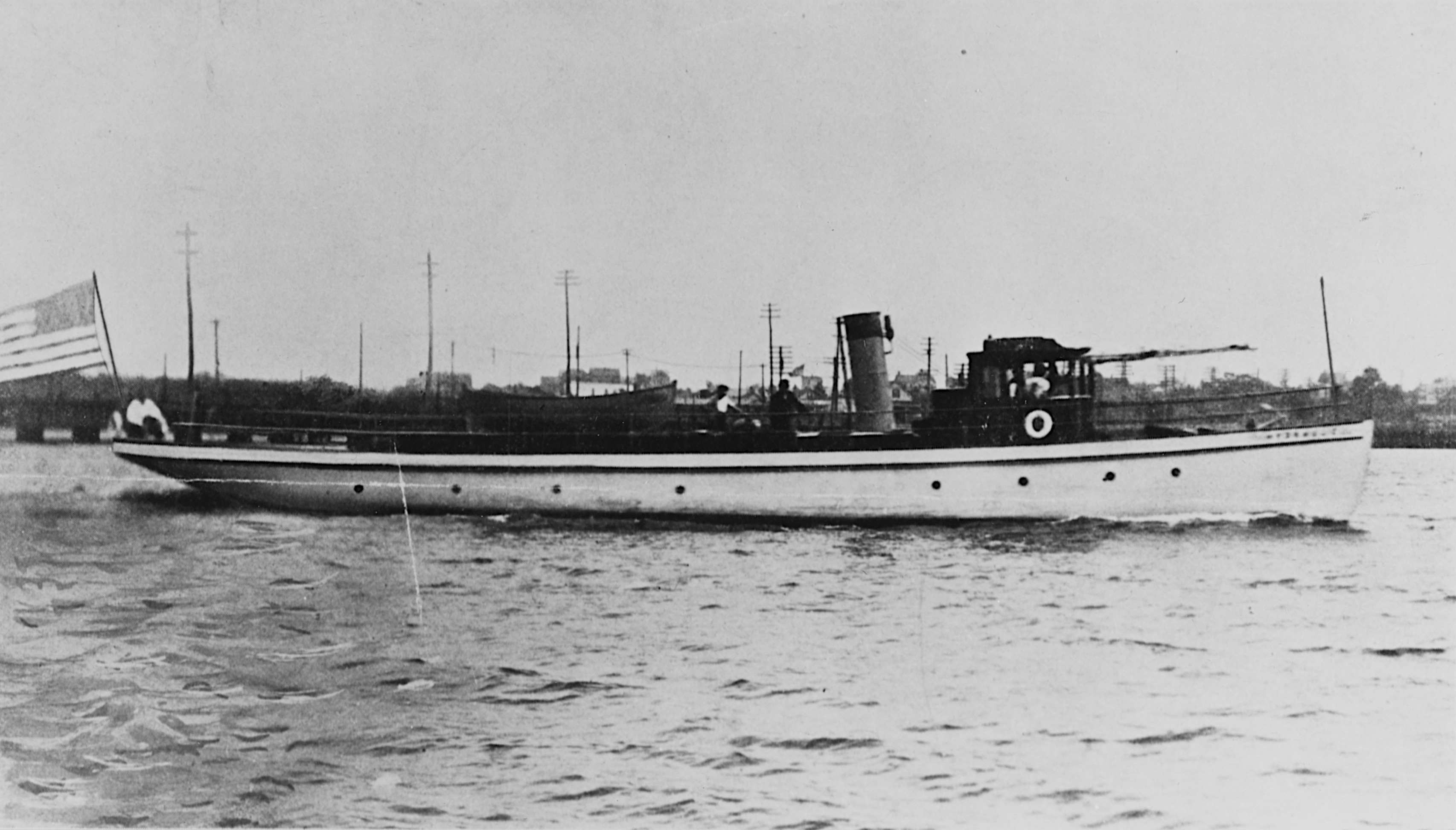 The steam yacht Hydraulic, built by A. C. Brown & Sons, Tottenville, Staten Island, in 1900. She briefly served as the patrol vessel USS Hydraulic (SP-2584) in 1918-19.